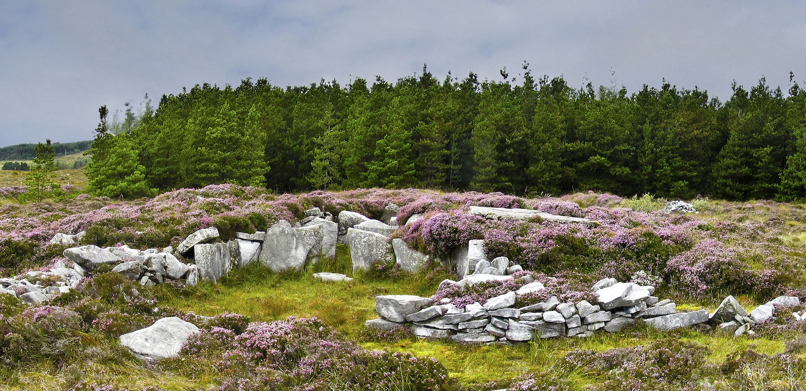 Rathlackan Tomb